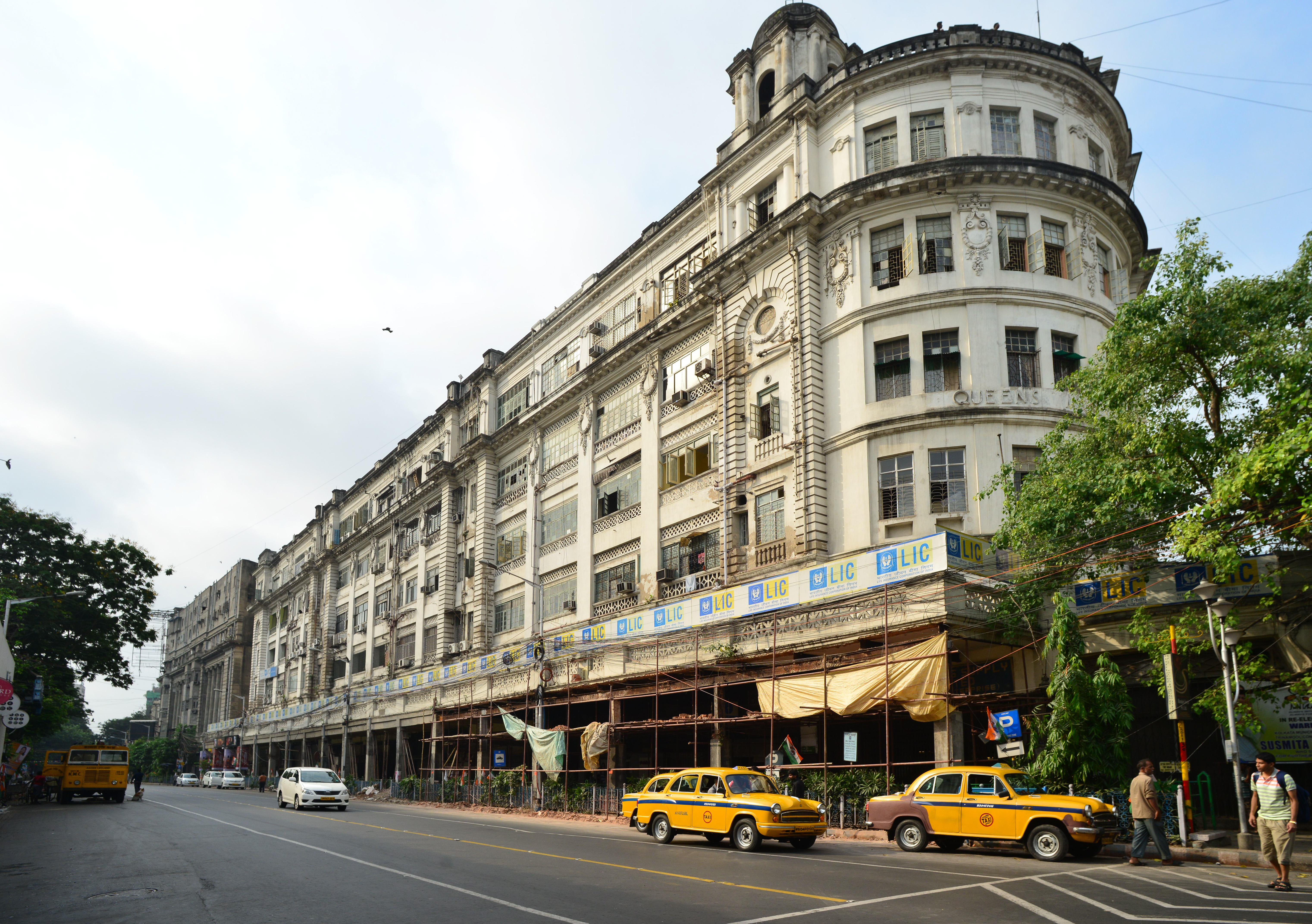 The Queens Building on Park Street (Mother Teresa Sarani), Kolkatta